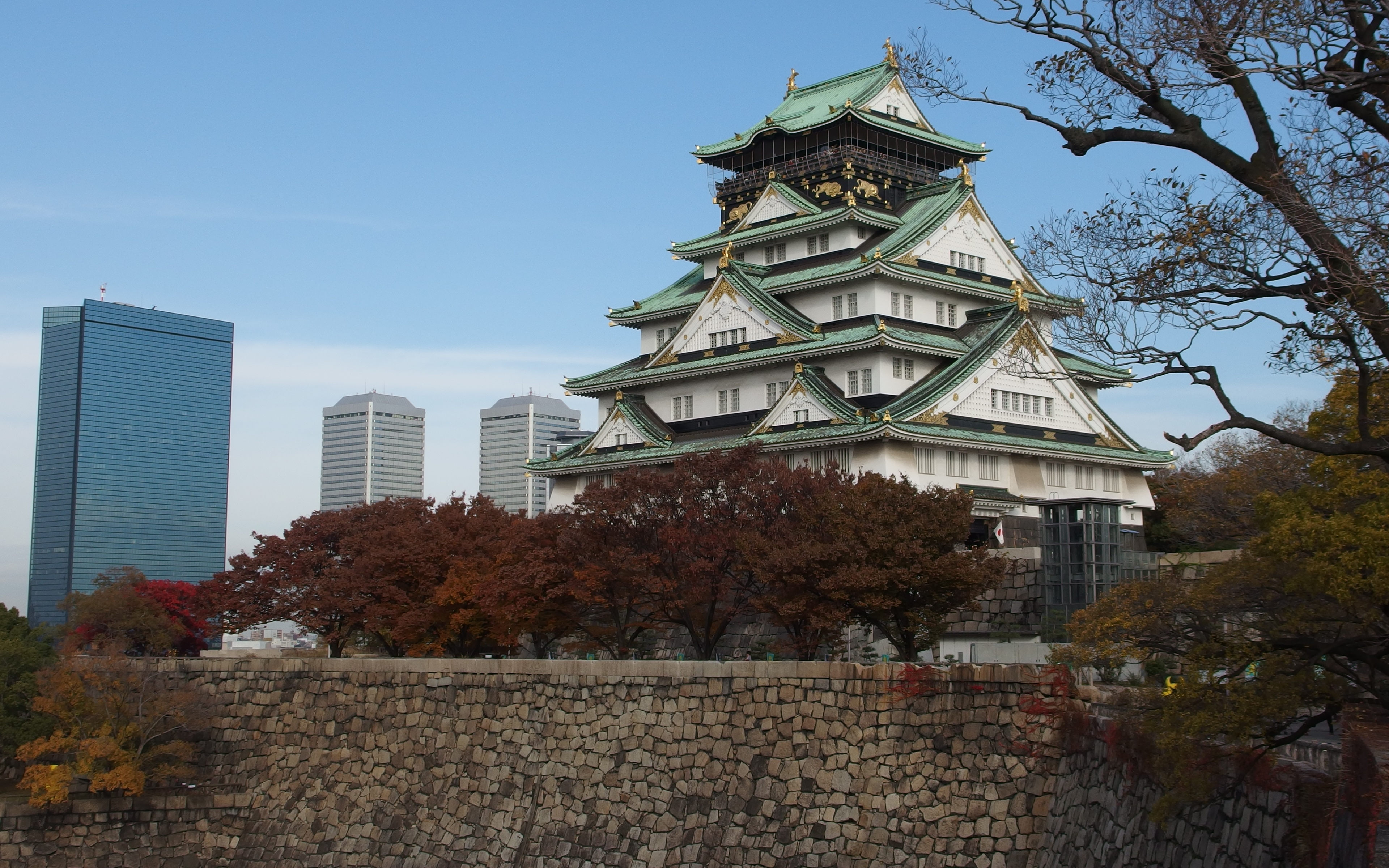 Osaka Castle, Osaka, Osaka Prefecture, Japan